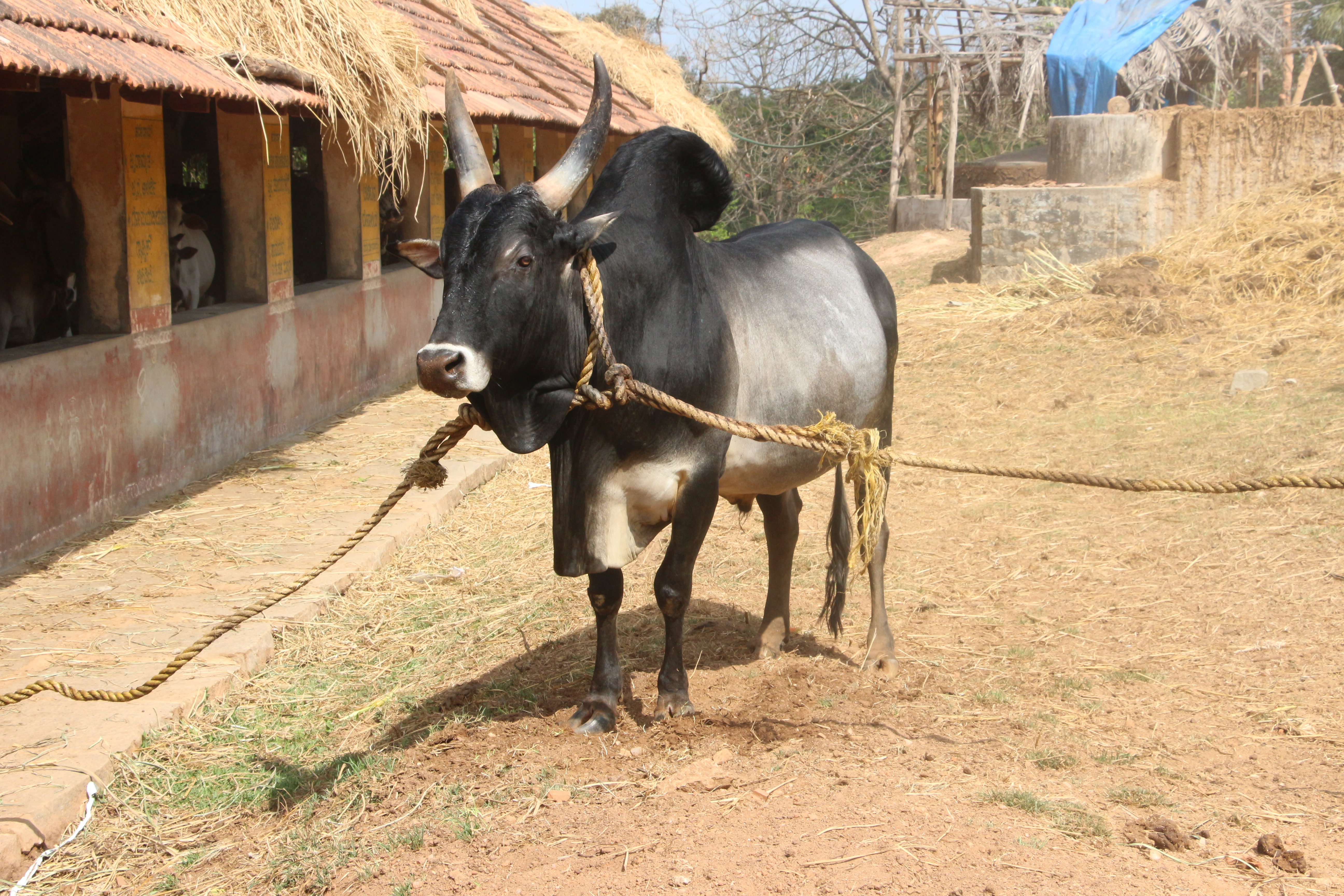 Indian cow breed Kangayamಕನ್ನಡ: ಭಾರತೀಯ ಗೋತಳಿ ಕಂಗಾಯಂ